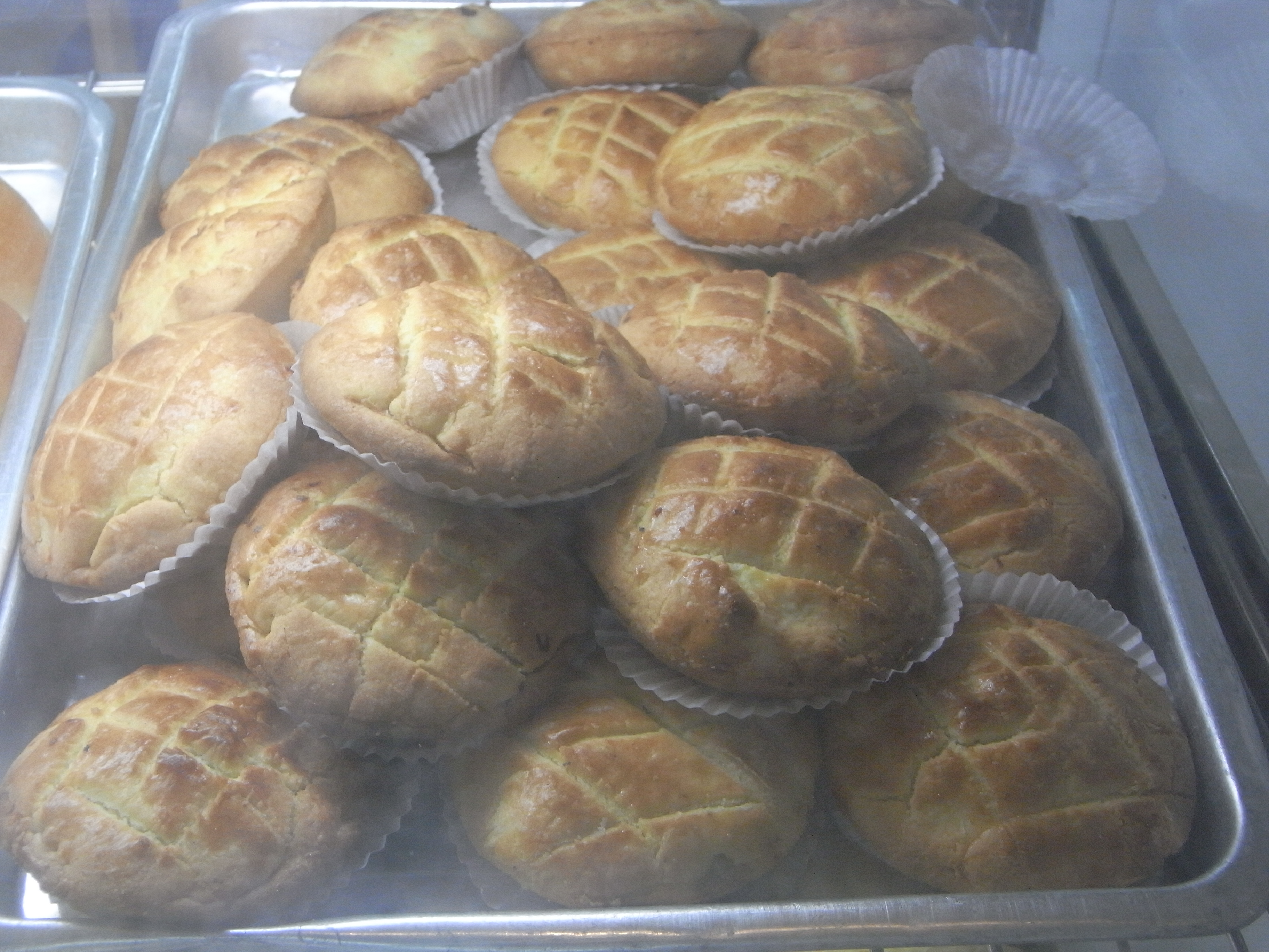 English